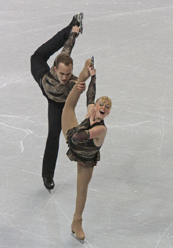 Caydee Denney & Jeremy Barrett (USA) at the 2009 Four Continents Championships.